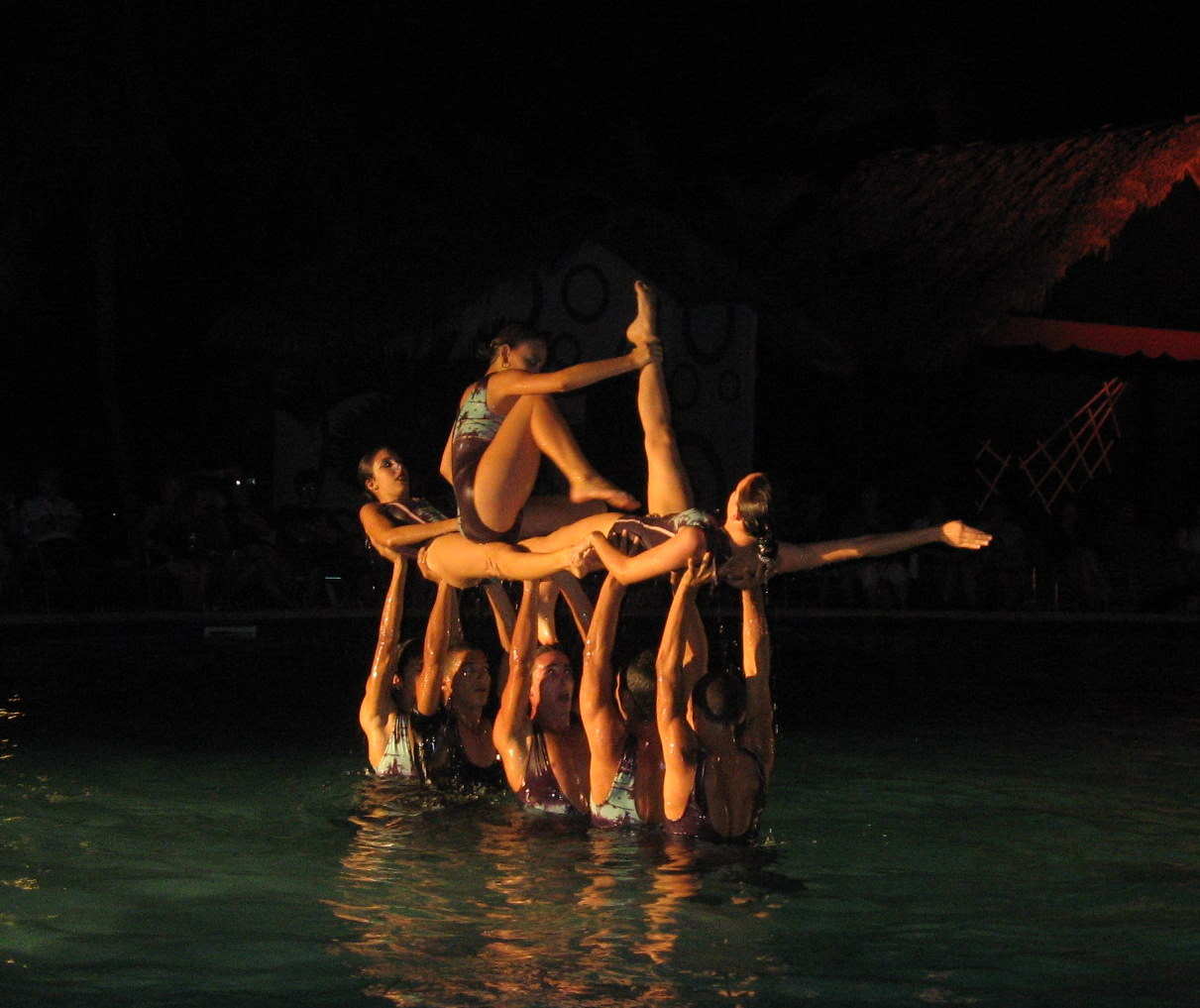 Water Ballet in Guardalavaca, Cuba